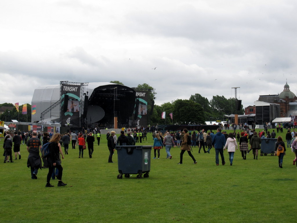 The main stage at the TRNSMT Festival, Glasgow Green